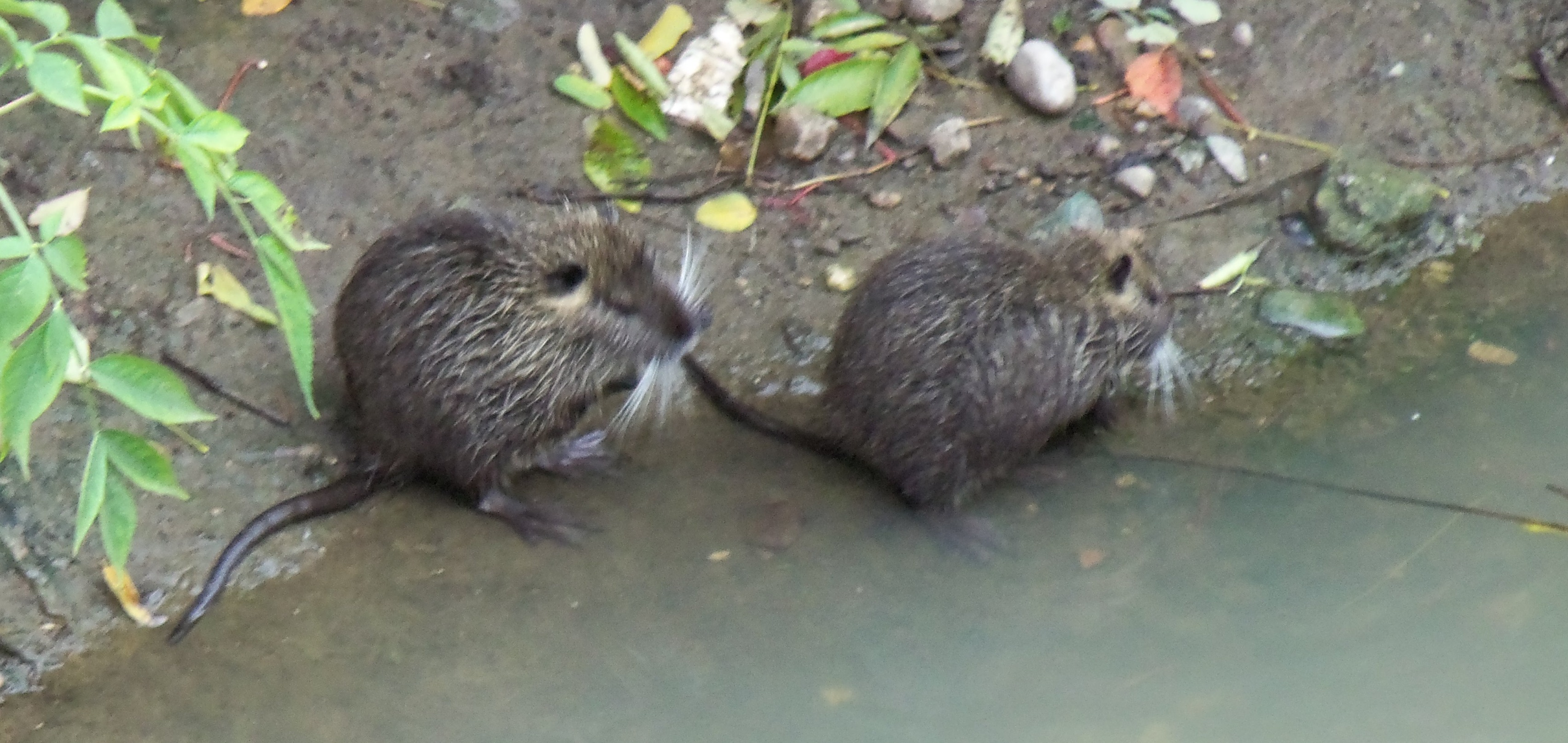 Myocastor coypus, Vettabbia Milan